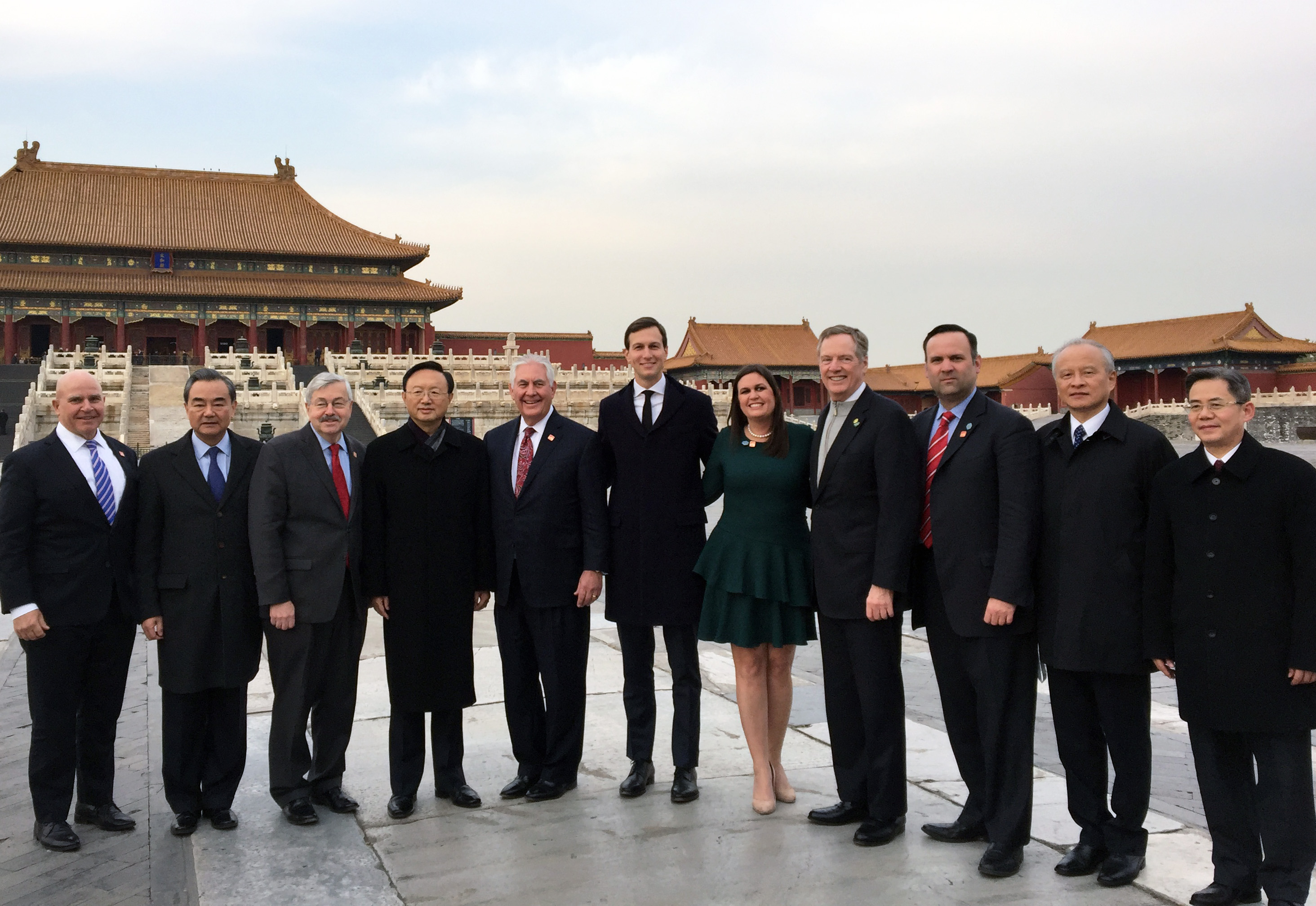 National Security Advisor H.R. McMaster, Foreign Minister Wang Yi, Ambassador to China Terry Branstad, State Councilor Yang Jiechi, U.S. Secretary of State Rex Tillerson, White House Senior Aide Jared Kushner, White House Press Secretary Sarah Huckabee Sanders, U.S. Trade Representative Robert Lighthizer, Director of Social Media and Assistant to the President Dan Scavino Jr., Chinese Ambassador to the U.S. Cui Tiankai, and Vice Minister of Foreign Affairs Zheng Zeguang during President Trump and the First Lady’s tour of the Forbidden City, Beijing, China on November 8, 2017. [State Department photo/Public Domain]